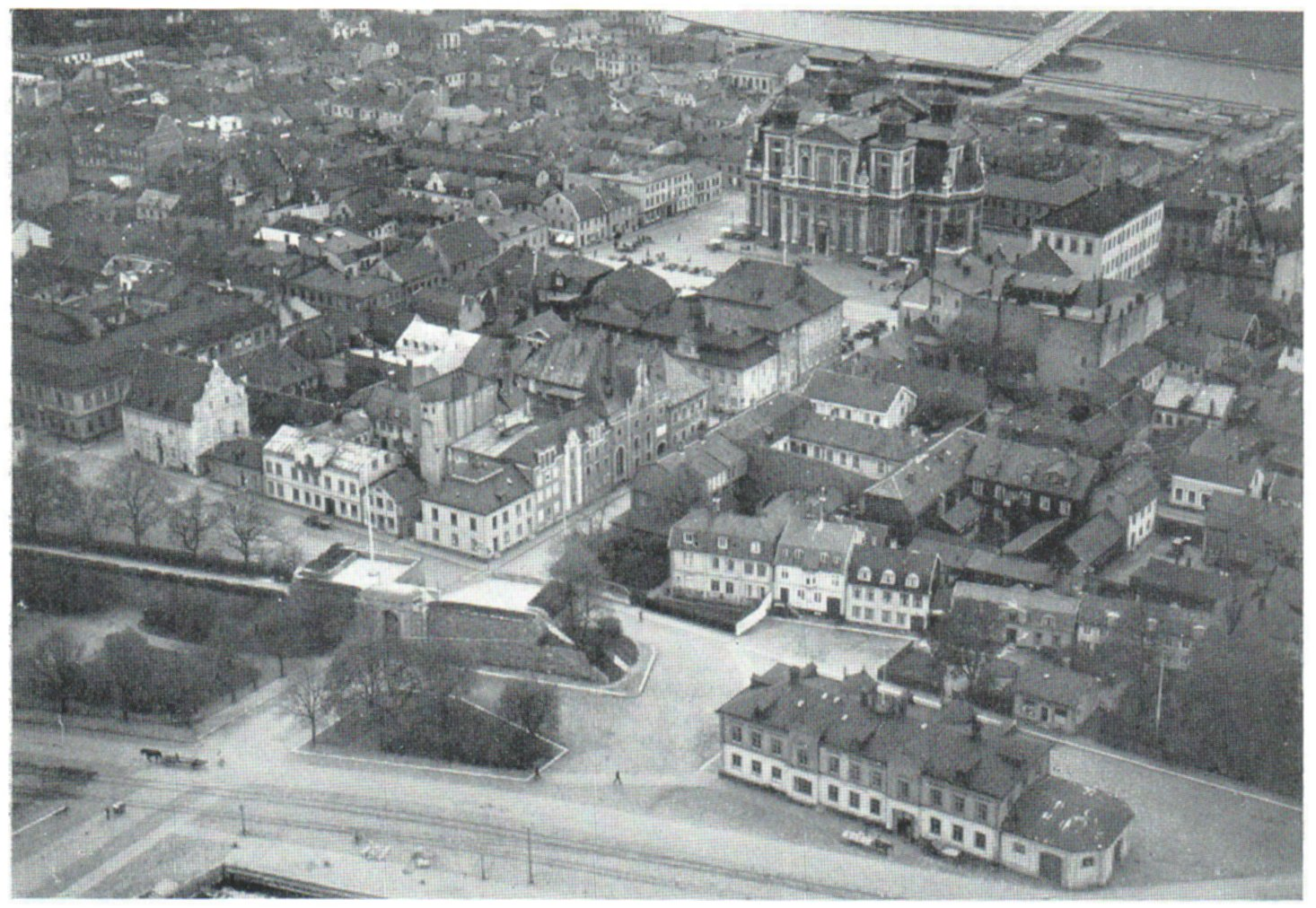 Aerial image of Kalmar, Sweden